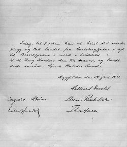 The declaration from Myggbukta 1931